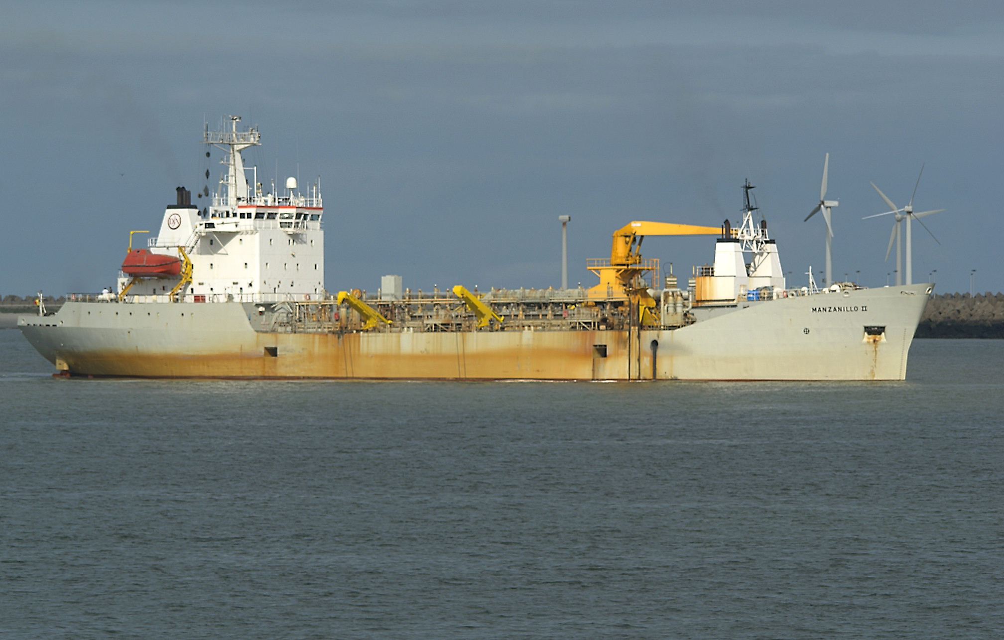 The trailing suction hopper dredger Manzanillo II, dredging at Zeebrugge port, Belgium. IMO Number: 8600909 MMSI Number: 205114000 Callsign: ORKO Total installed power 11,410 kW Hopper capacity 4,000 m³ Length 113.6 m Breadth 19 m Draught 8 m Speed 14,0 kn Suction pipe 2 x 900 mm Dredging depth 27.0 m